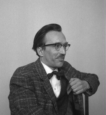 Photograph of the Finnish writer Heikki Seppälä (1903–1980).